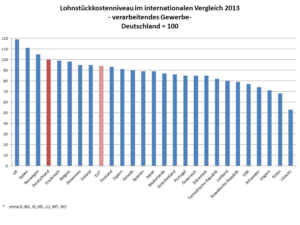 Unit labour costs in international relation